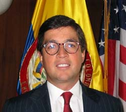 Colombian diplomat and former minister of economic development Luis Alberto Moreno president of the Inter-American Development Bank.